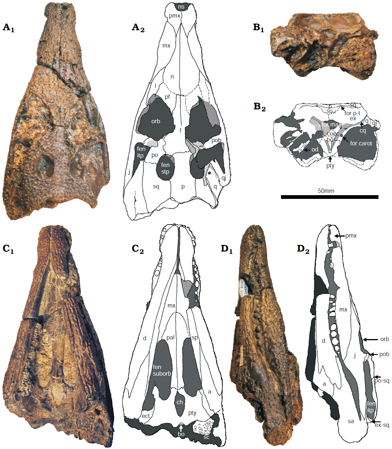 Koumpiodontosuchus aprosdokiti gen. et sp. nov. from the Barremian Wessex Formation of the Isle of Wight, UK. Holotype specimen IWCMS 2012.203–204, in dorsal (A), occipital (B), ventral (C), and left lateral (D) views. Photographs (A1–D1), schematic representations to show anatomical features including sutures between bones (A2–D2). Anatomical abbreviations: a, angular; bo, basioccipital; ch, choana; cocc, occipital condyle; cq, cranioquadrate passage; d, dentary; ect, ectopterygoid; ex, exoccipital; ex-sq, exoccipital-squamosal suture; f, frontal; fen itp, infratemporal fenestra; fen stp, supratemporal fenestra; fen suborb, suborbital fenestra; for carot, carotid foramen; for mag, foramen magnum; for p-t, post-temporal foramen; j, jugal; l, lachrymal; mx, maxilla; n, nasal; ns, naris; od, osteoderm; orb, orbit; pal, palatine; p, parietal; pf, prefrontal; pmx, premaxilla; po, postorbital; pob, postorbital bar; po-sq, postorbital-squamosal suture; pty, pterygoid; q, quadrate; qj, quadratojugal; sa, surangular; so, supraoccipital; sp, splenial; sq, squamosal.